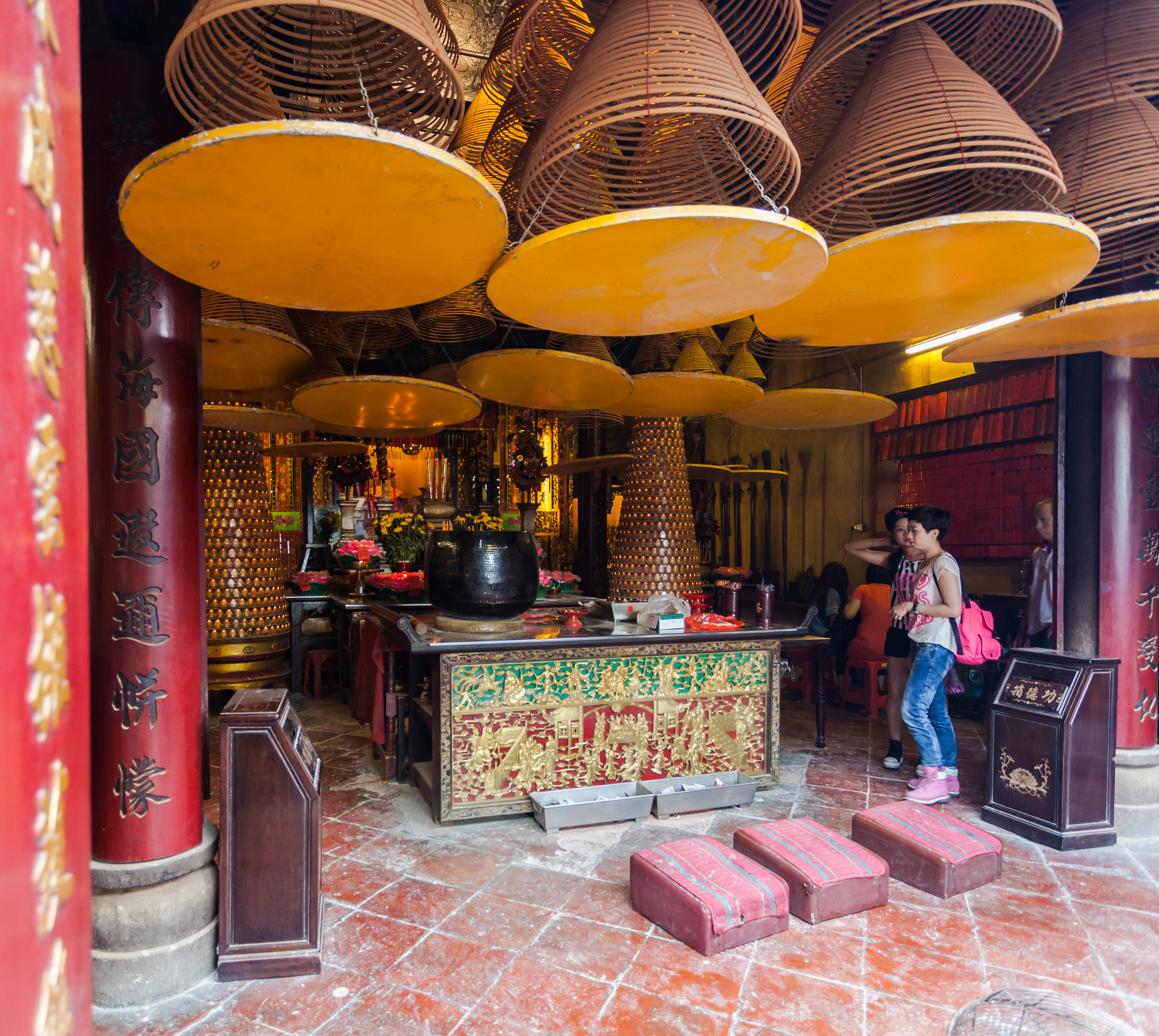 A-Ma Temple, Macau